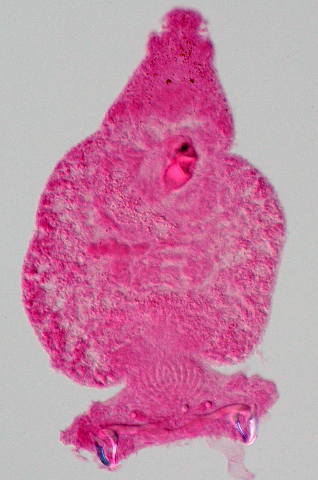 Pseudorhabdosynochus morrhua Justine, 2008 (Monogenea, Diplectanidae), parasite of the grouper Epinephelus morrhua (Epinephelinae, Serranidae, Perciformes) off New Caledonia, South Pacific. Photograph of holotype, slide MNHN JNC2453A5, carmine-stained, total length of specimen 340 µm. This file has descriptions in MANY languages - if you don't see them, select "Show all" with the language selector above